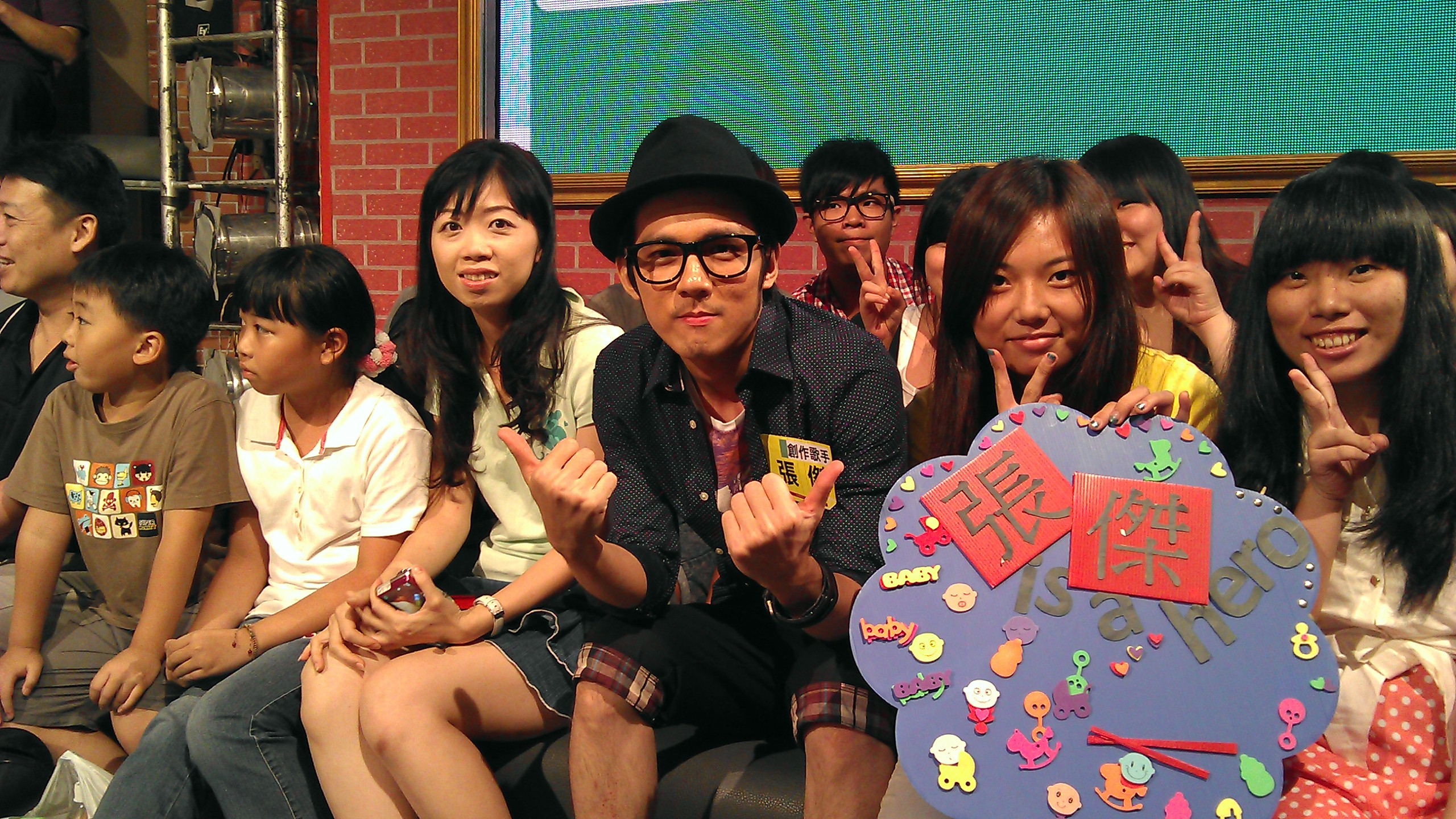 The singer Chase Chang (Chinese: 張傑) (shown with the bolder frame glasses and a hat) with his fans.